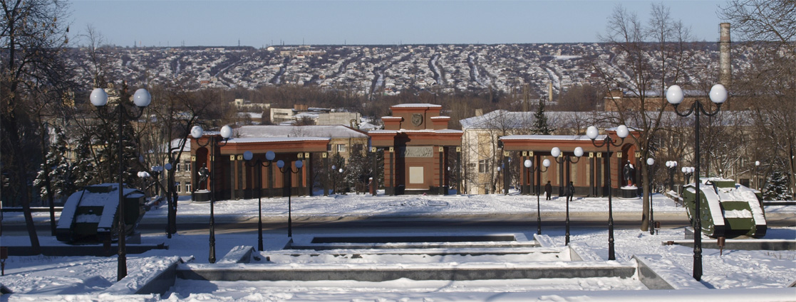 Monument for Revolution Heroes in Luhansk